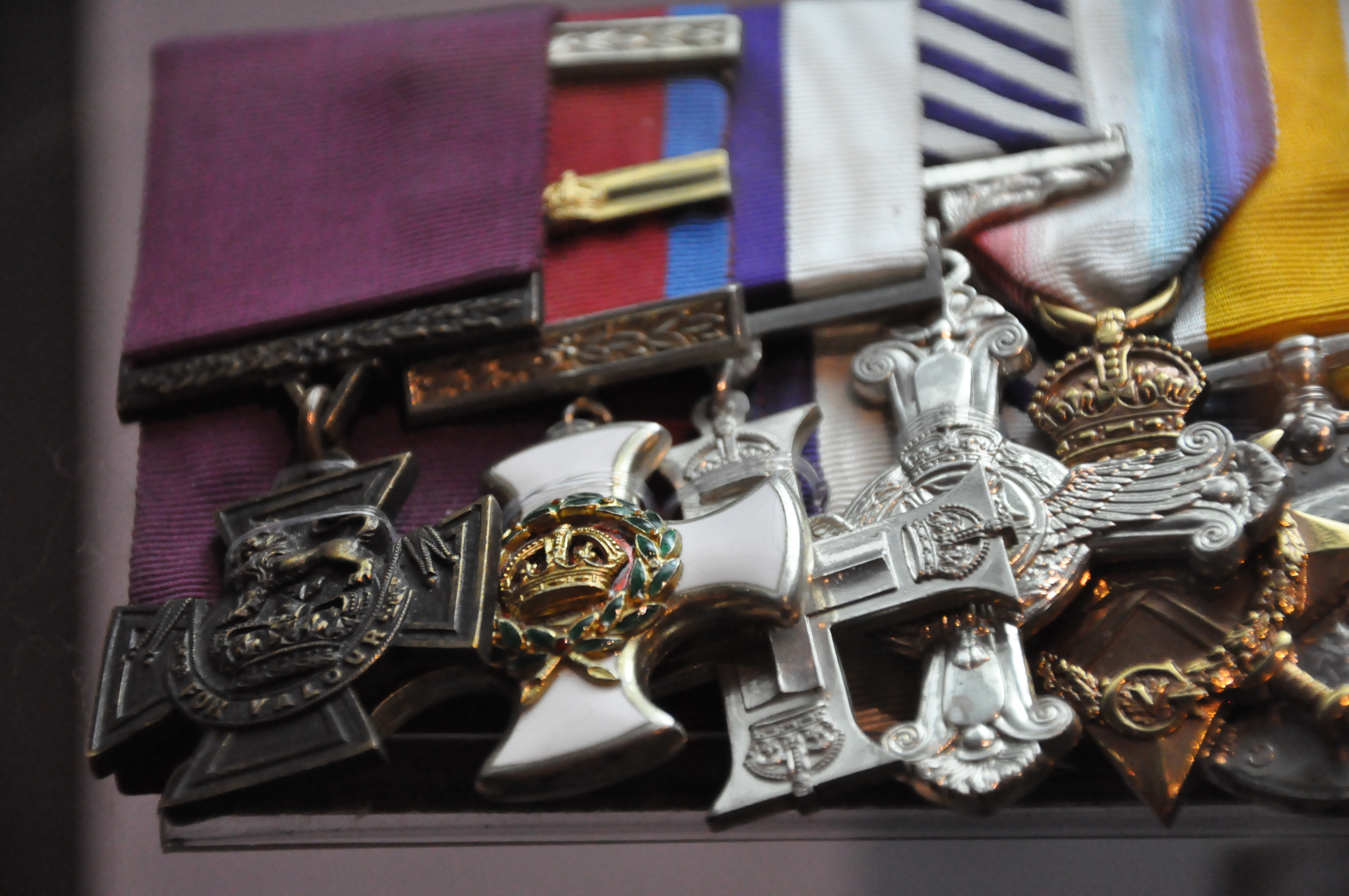 Some of the medals awarded to Billy Bishop during his service in the First World War, including (left to right) Victoria Cross, Distinguished Service Order with Bar, Military Cross, Distinguished Flying Cross, 1914-1915 Star, British War Medal 1914-1920. From the Canadian War Museum collection.